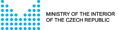 Logo of Ministry of the Interior of the Czech Republic